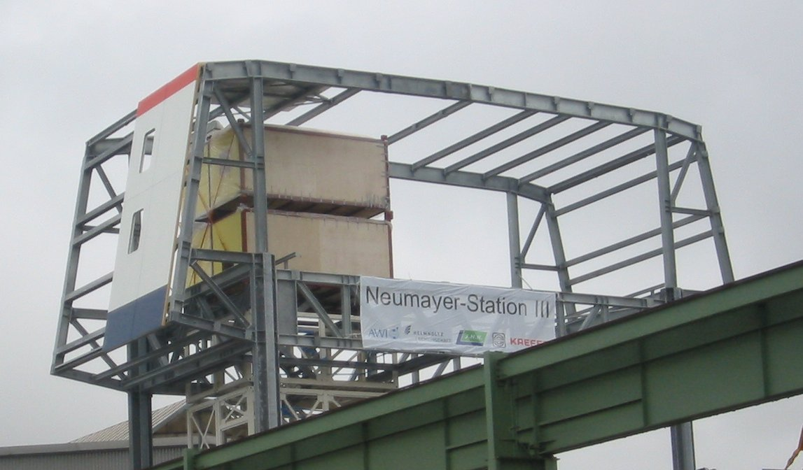 exterior view steel structure of Neumayer-Station III with sample insulating wall panel and sample containers